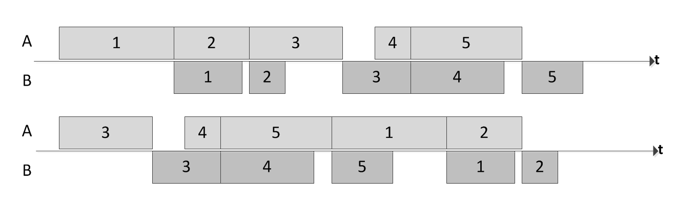 example of "no-wait flow-shop scheduling" with five jobs on two machines; comparison of total makespan for different job sequences